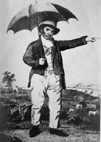 Engraving of John Campbell (1766-1840), Scottish missionary and traveller in South Africa